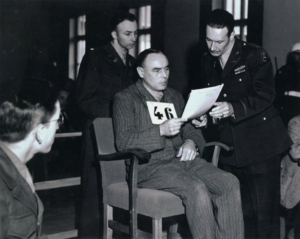 Defendant Vincenz Nohel reads his statement at the Mauthausen war crimes trial. He was later sentenced to death by hanging.